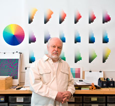 Image of artist